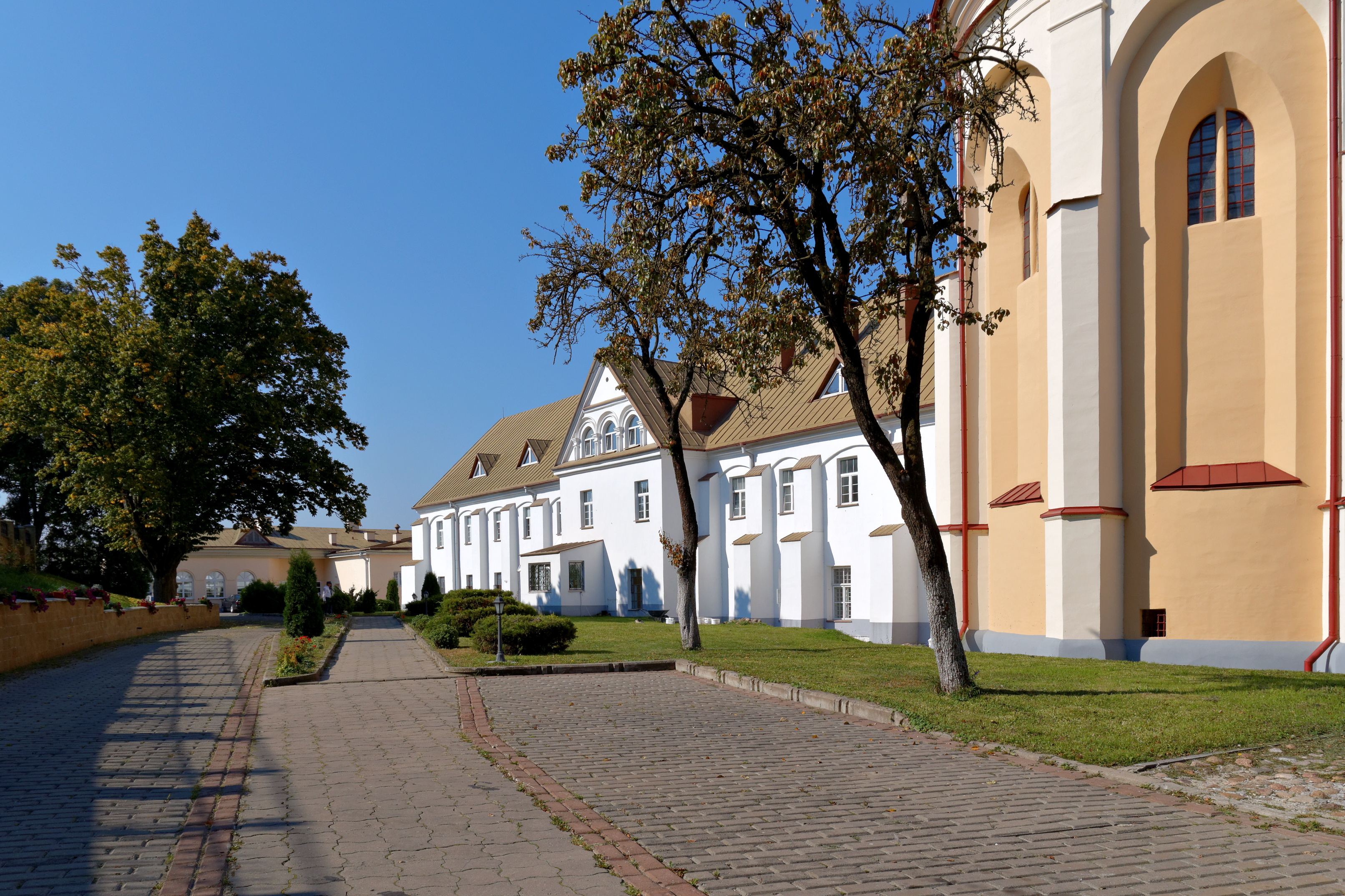 Grodno. Higher Theological Seminary